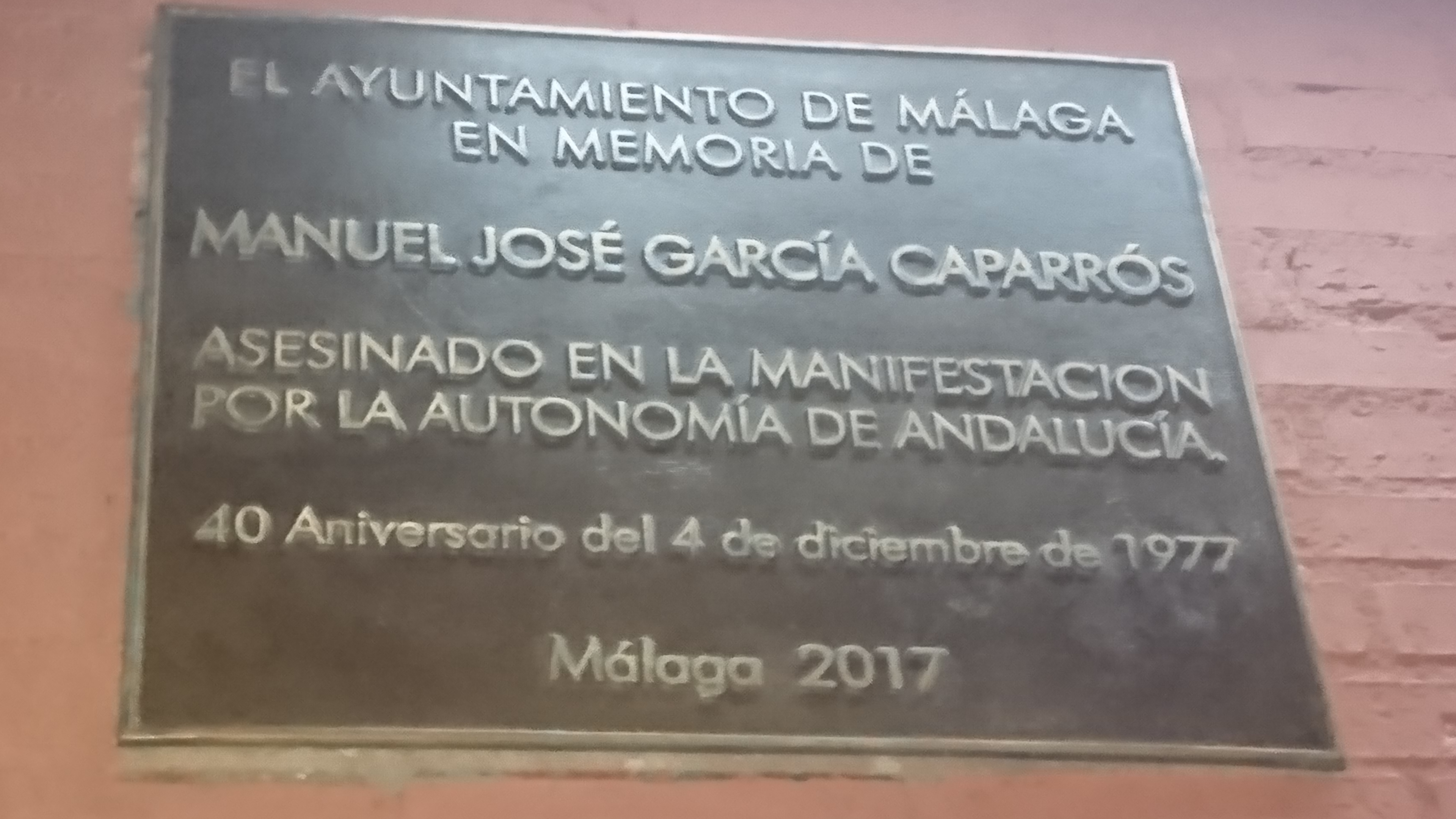 Text: "The council of Málaga in memory of Manuel José García Caparrós, assasinated in the Andalucian protest for autonomy, 40th anniversary of 4 December 1977, Málaga 2017."